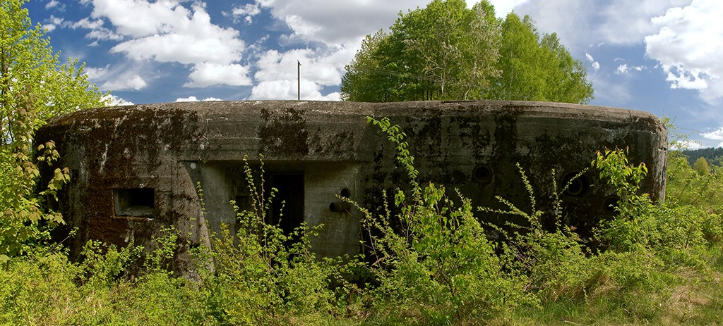 Poland; Przyborow; fort